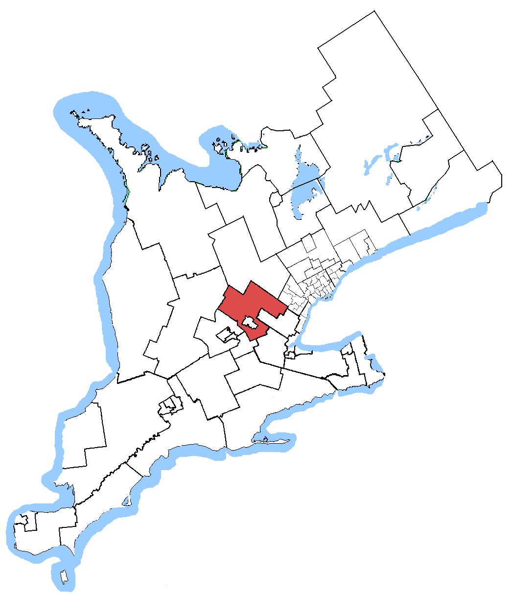 Map of the Wellington—Halton Hills electoral district. Based on Earl Andrew's maps, created by SimonP.